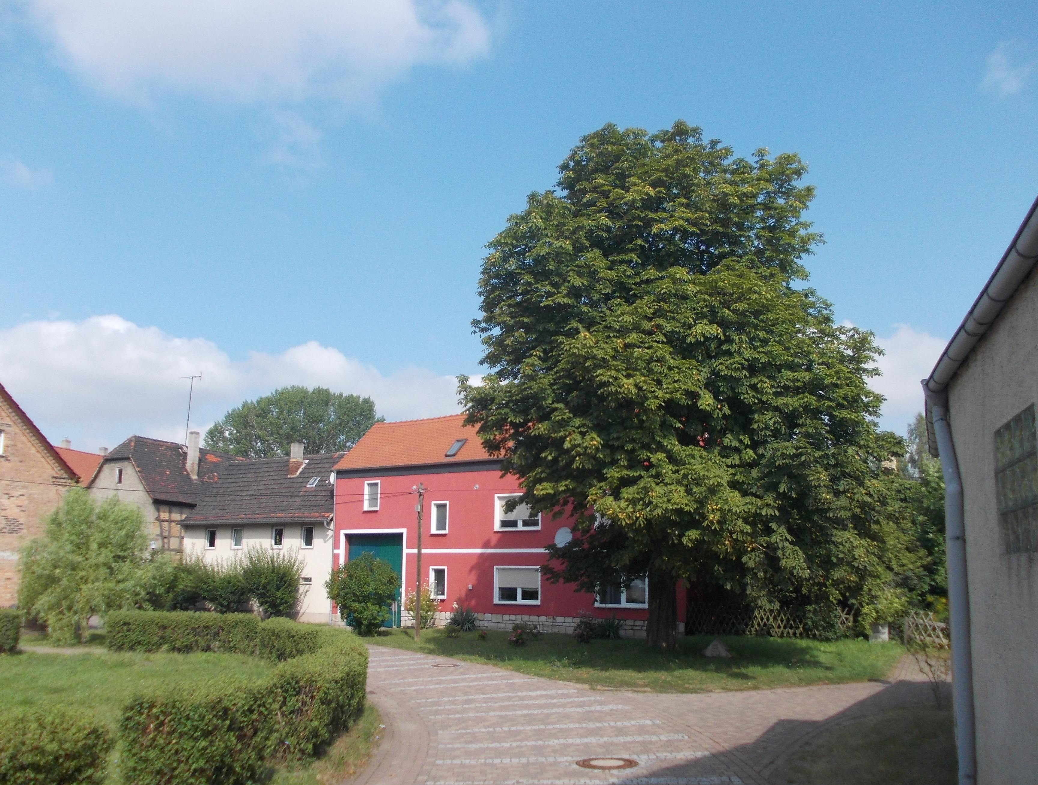 In Tornau (Lützen, district: Burgenlandkreis, Saxony-Anhalt)